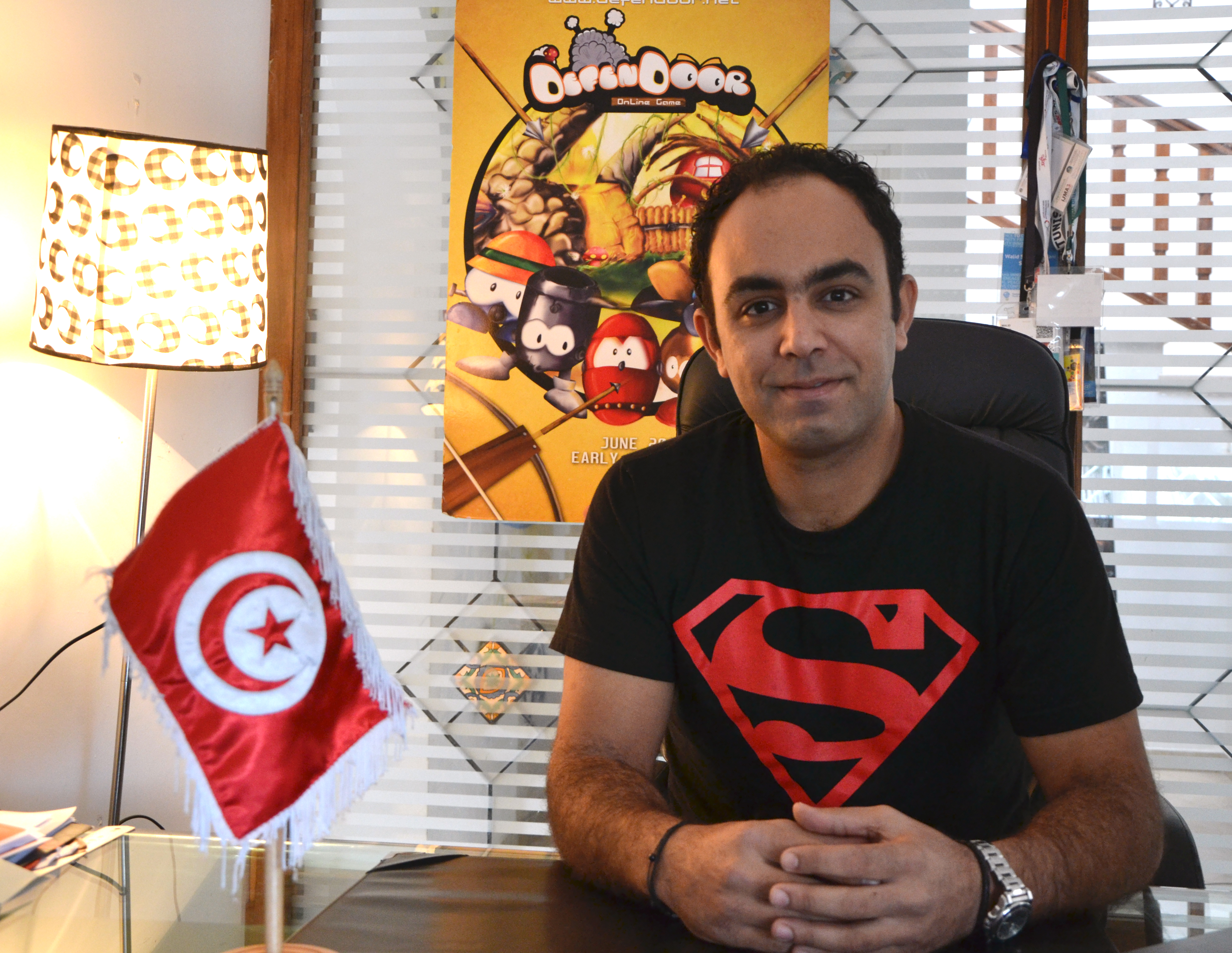 Walid Sultan Midani is the founder and the CEO of the first indie video game development studioin Tunisia, DigitalMania.